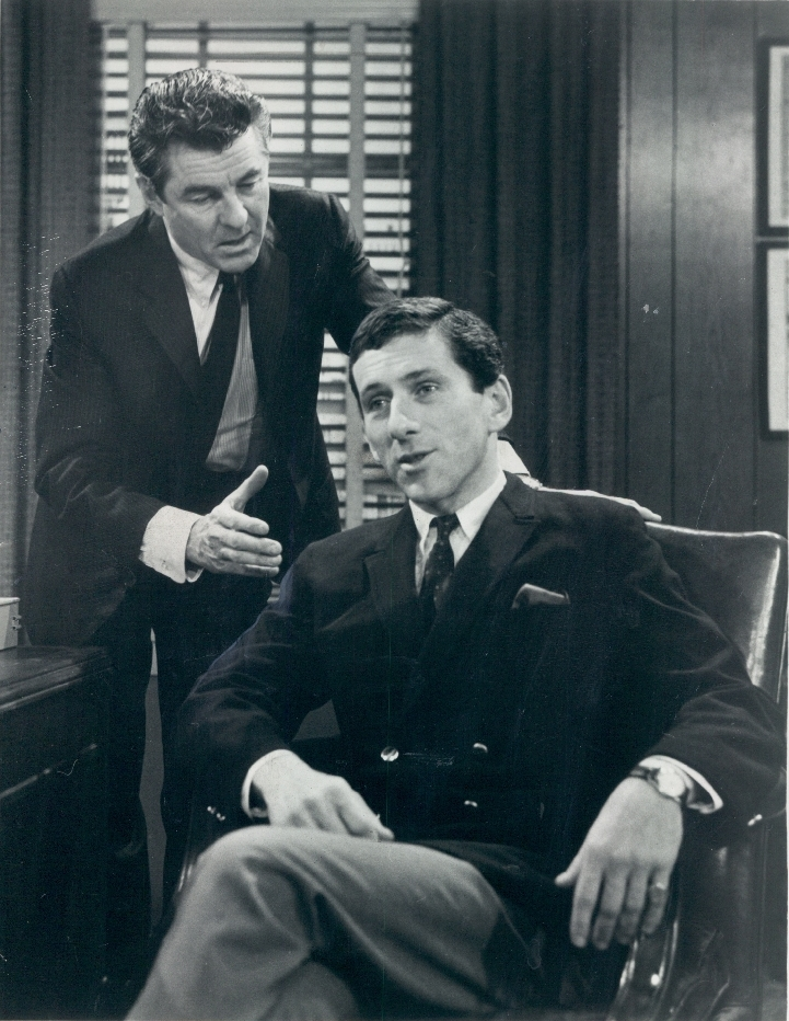 Publicity photograph release of the scene from The Edge of Night. In this photo were Laurence Hugo (left) as Mike Karr and Barry Newman as John Barnes.